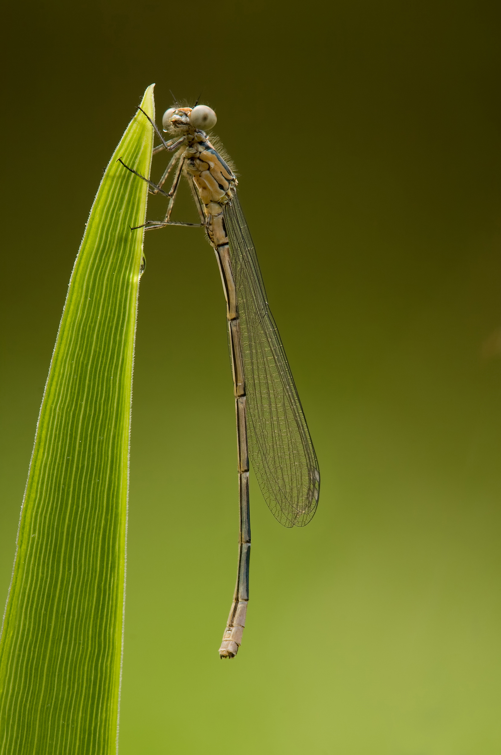 A immature male of Azure Damselfly (Coenagrion puella)